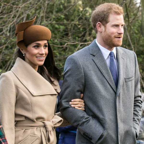 Prince Harry and Meghan Markle going to church at Sandringham on Christmas Day 2017.